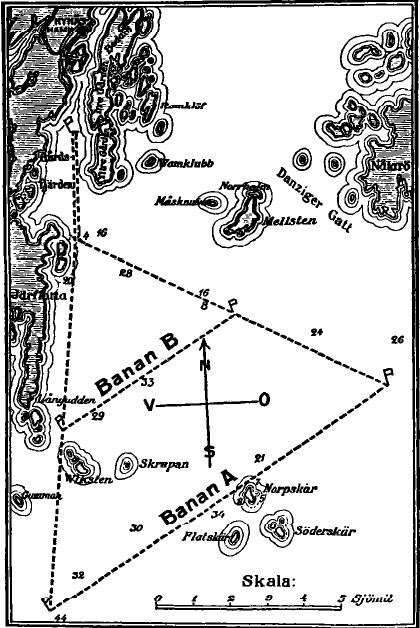 Course maps of the 1912 Olympic sailing regattas